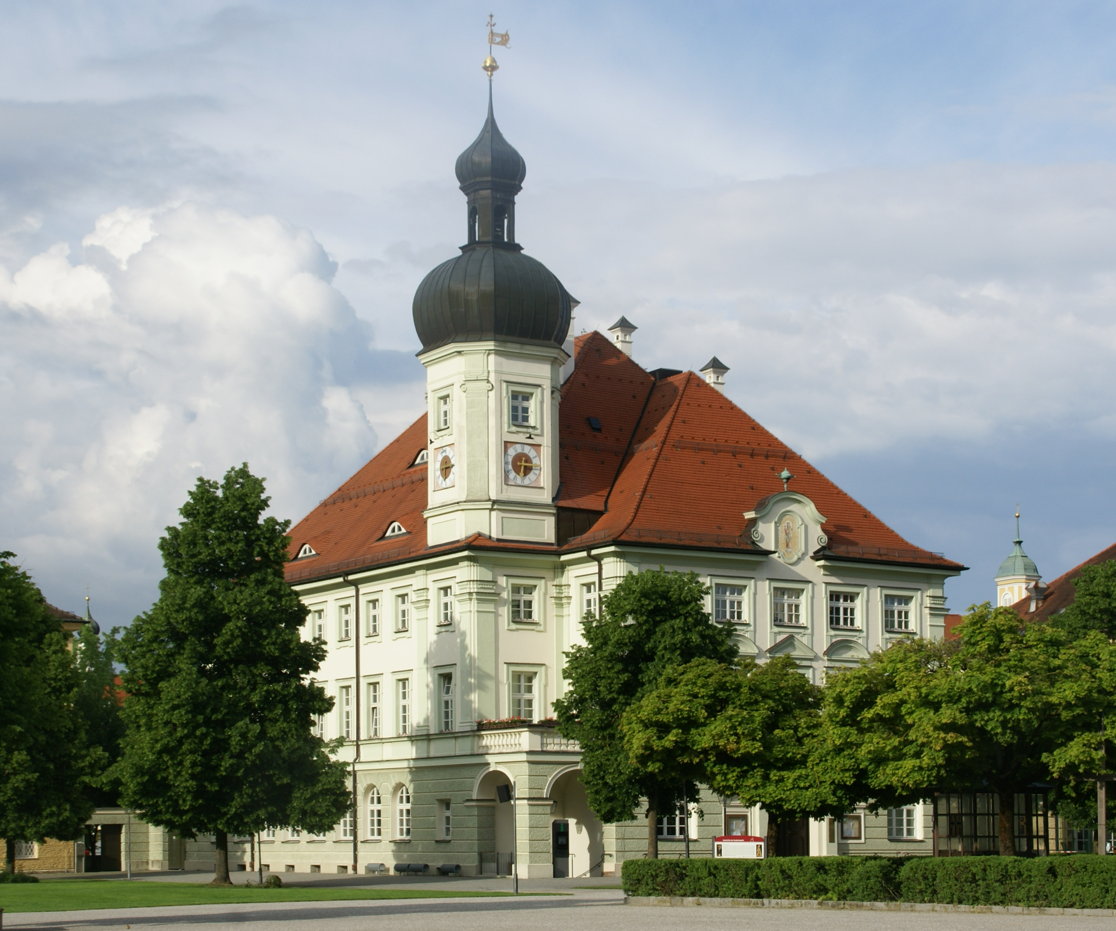 Town hall in Altötting, Kapellplatz 2a